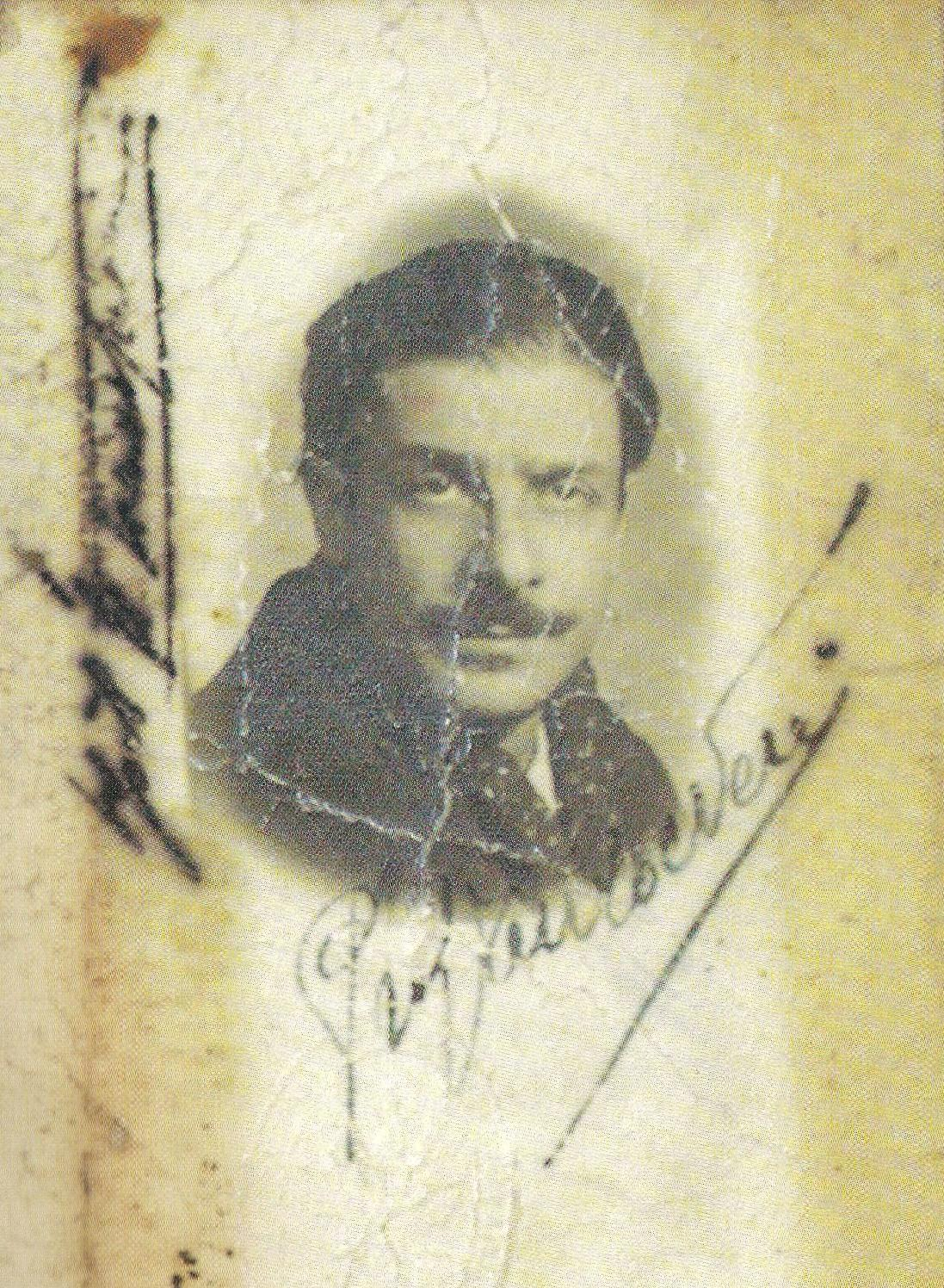 Enzo Nenci, 1936